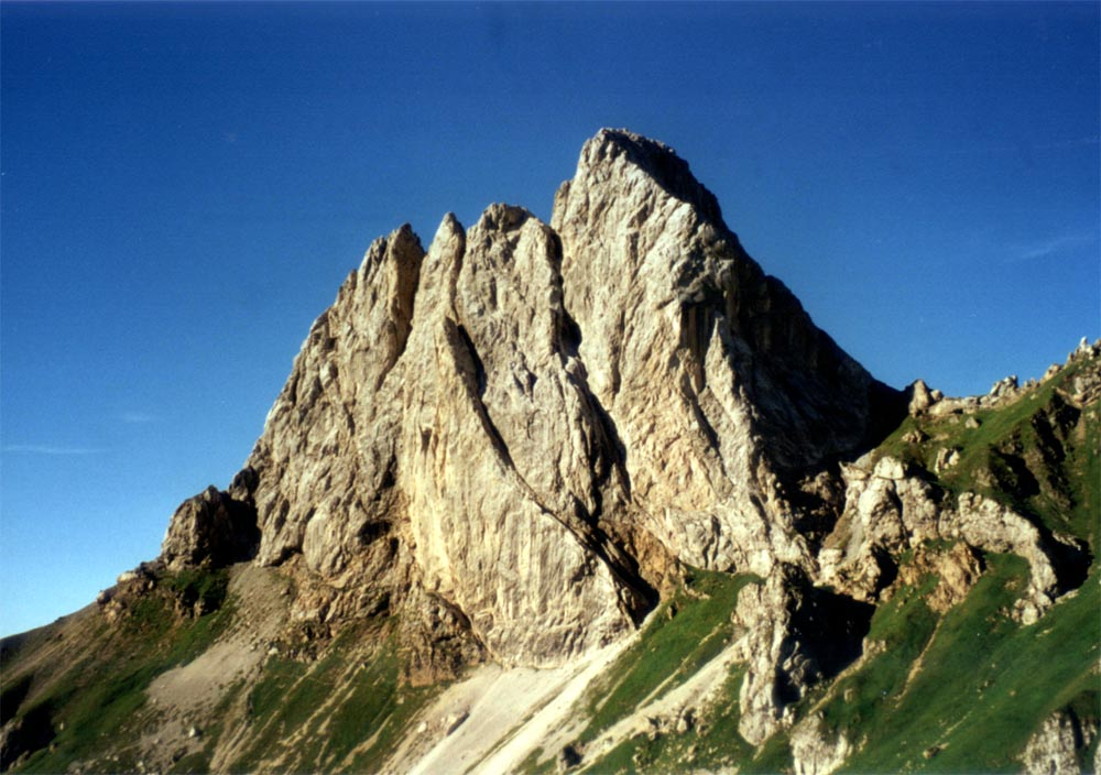 Monte Chiadenis seen from North, Carnic Alps, at border Austria / Italy